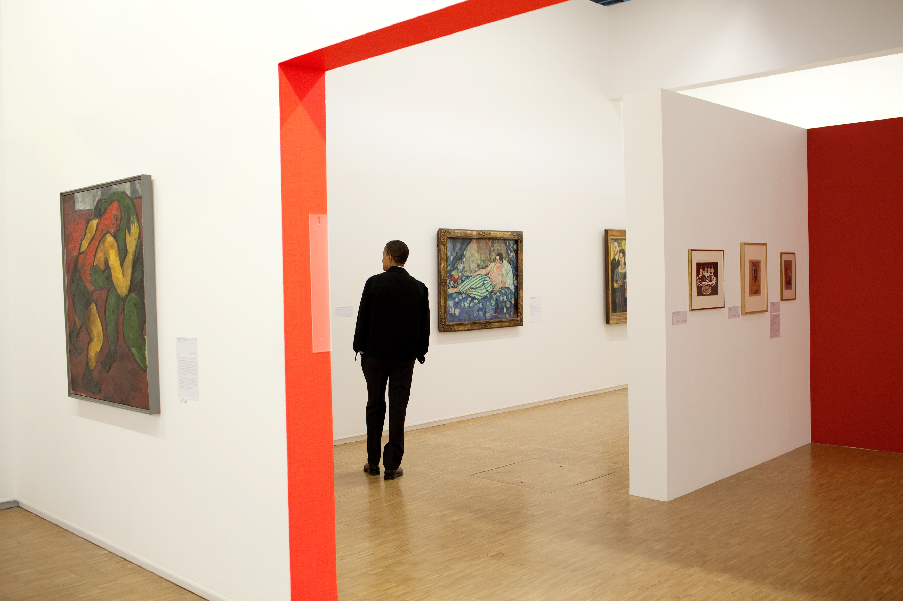 President Barack Obama tours the Centre Pompidou modern art museum in Paris, June 6, 2009. (